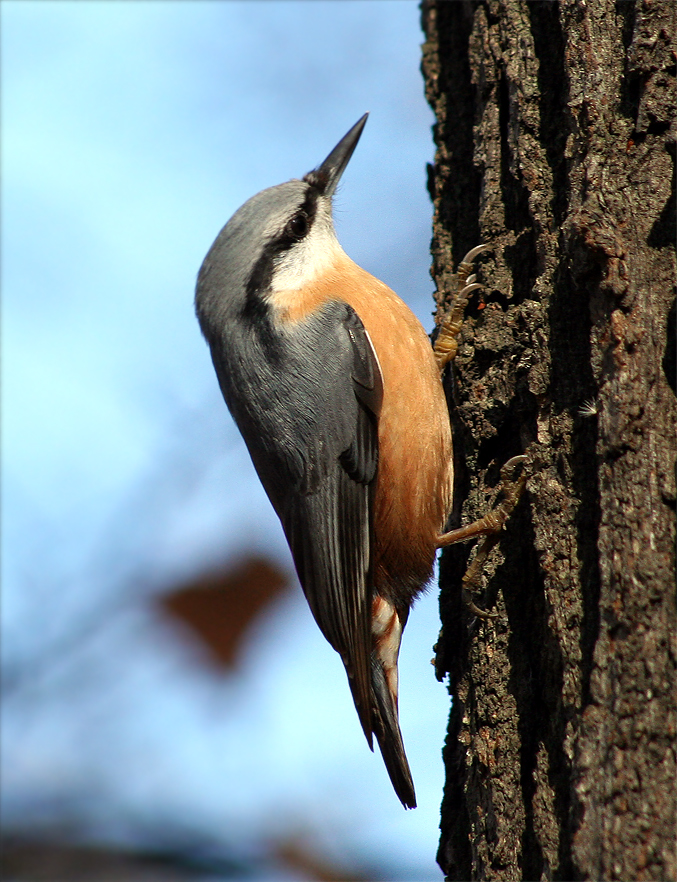 Wood Nuthatch (Sitta europaea)